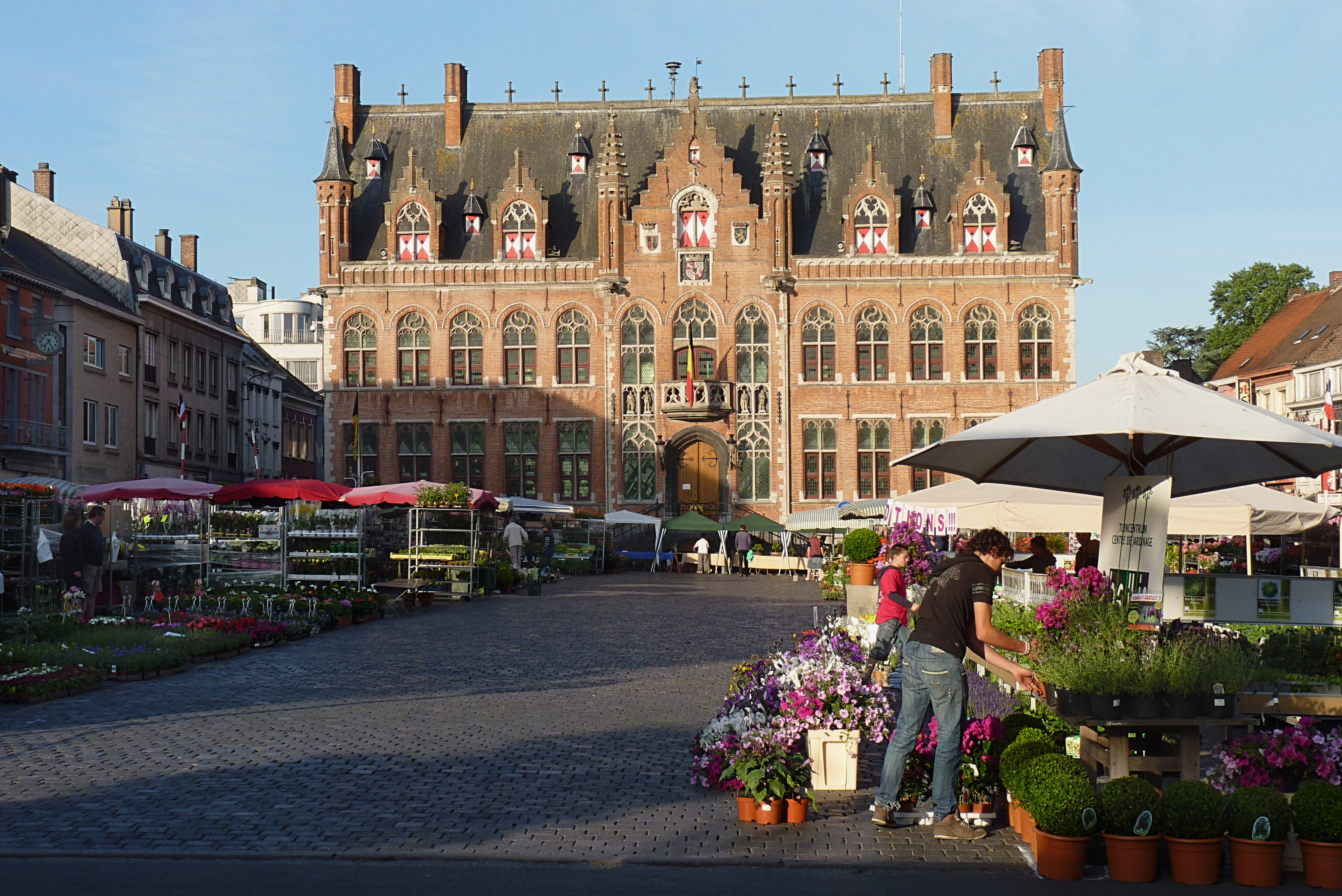 Flower market on the Ascension Day on the town square of Mouscron, Belgium. In the background, the town hall.